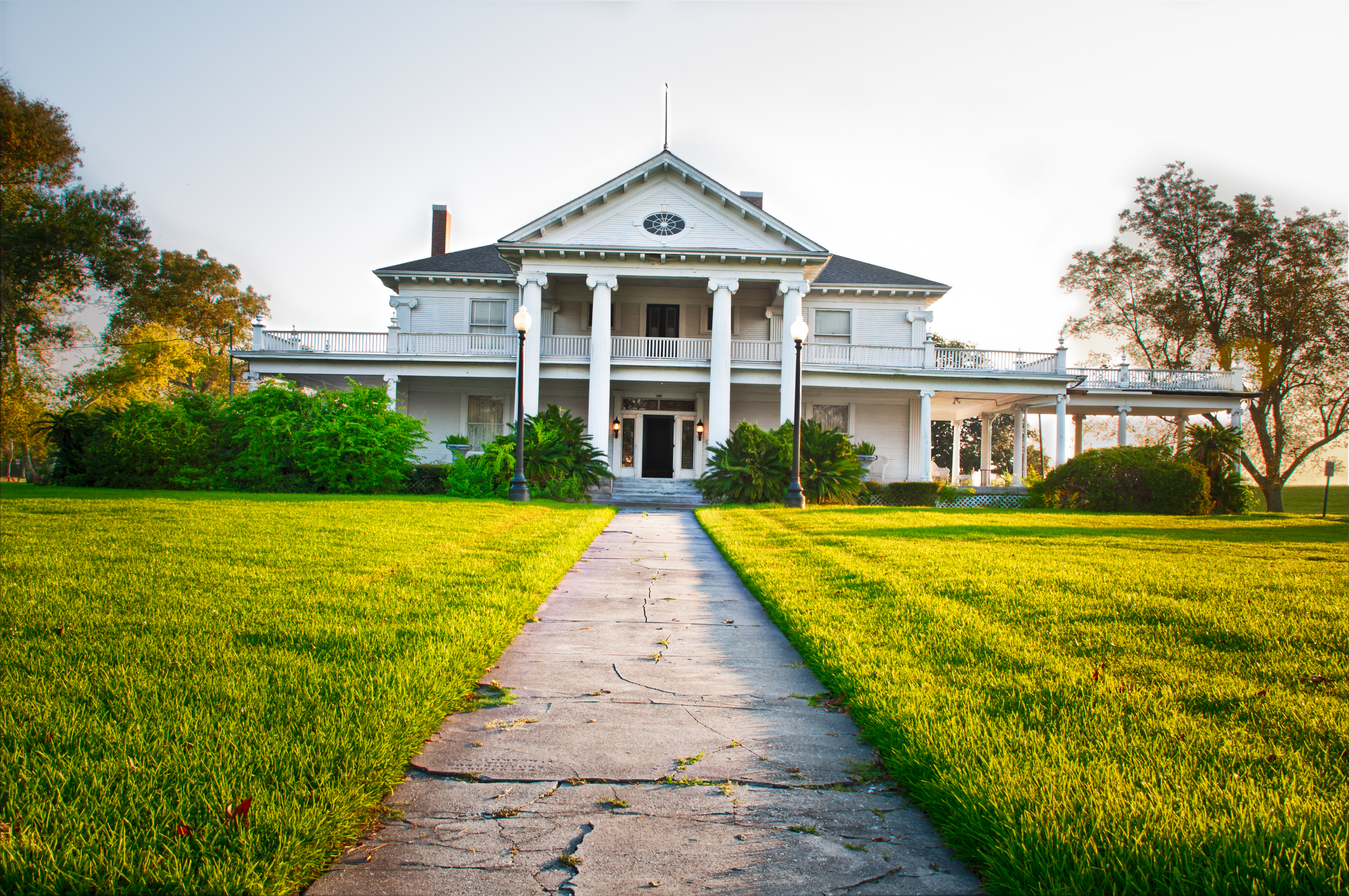 Rose Hill Rose Hill is located right next to the seawall in the historic area of Port Arthur, Texas.